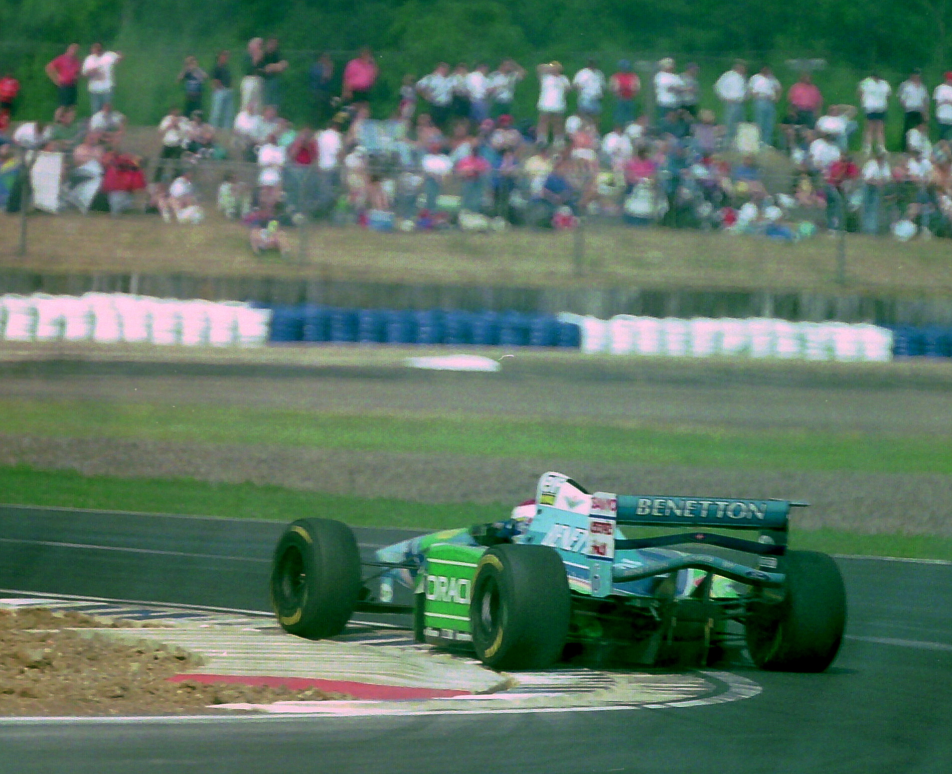 Jos Verstappen - Benetton 194 at the 1994 British Grand Prix